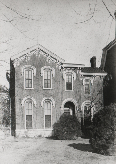 Old Central Hall